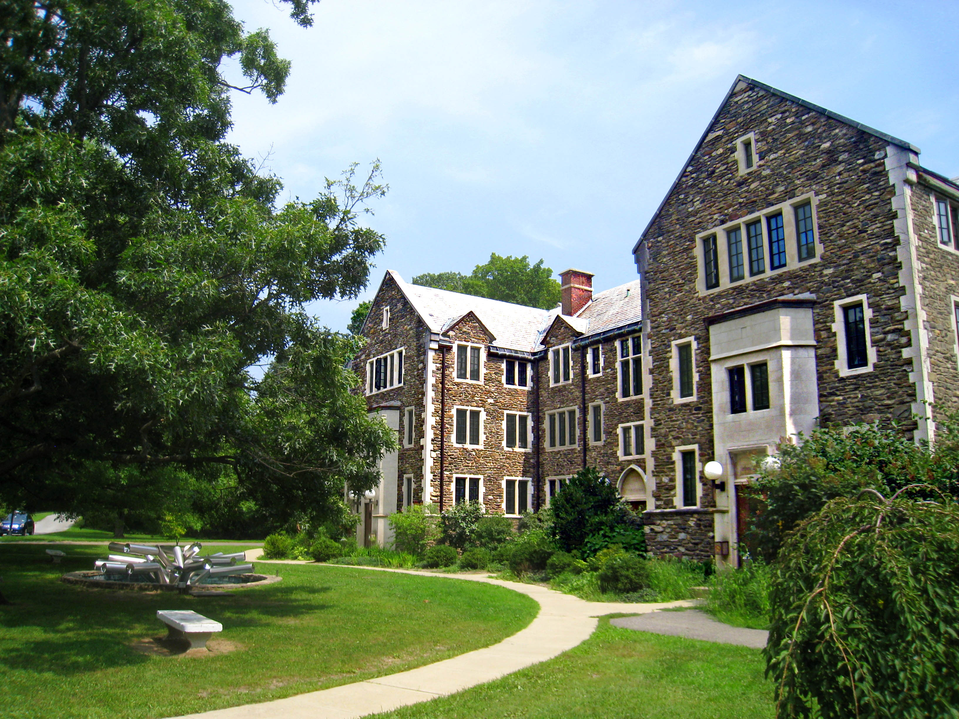 Warden's Hall at Bard College